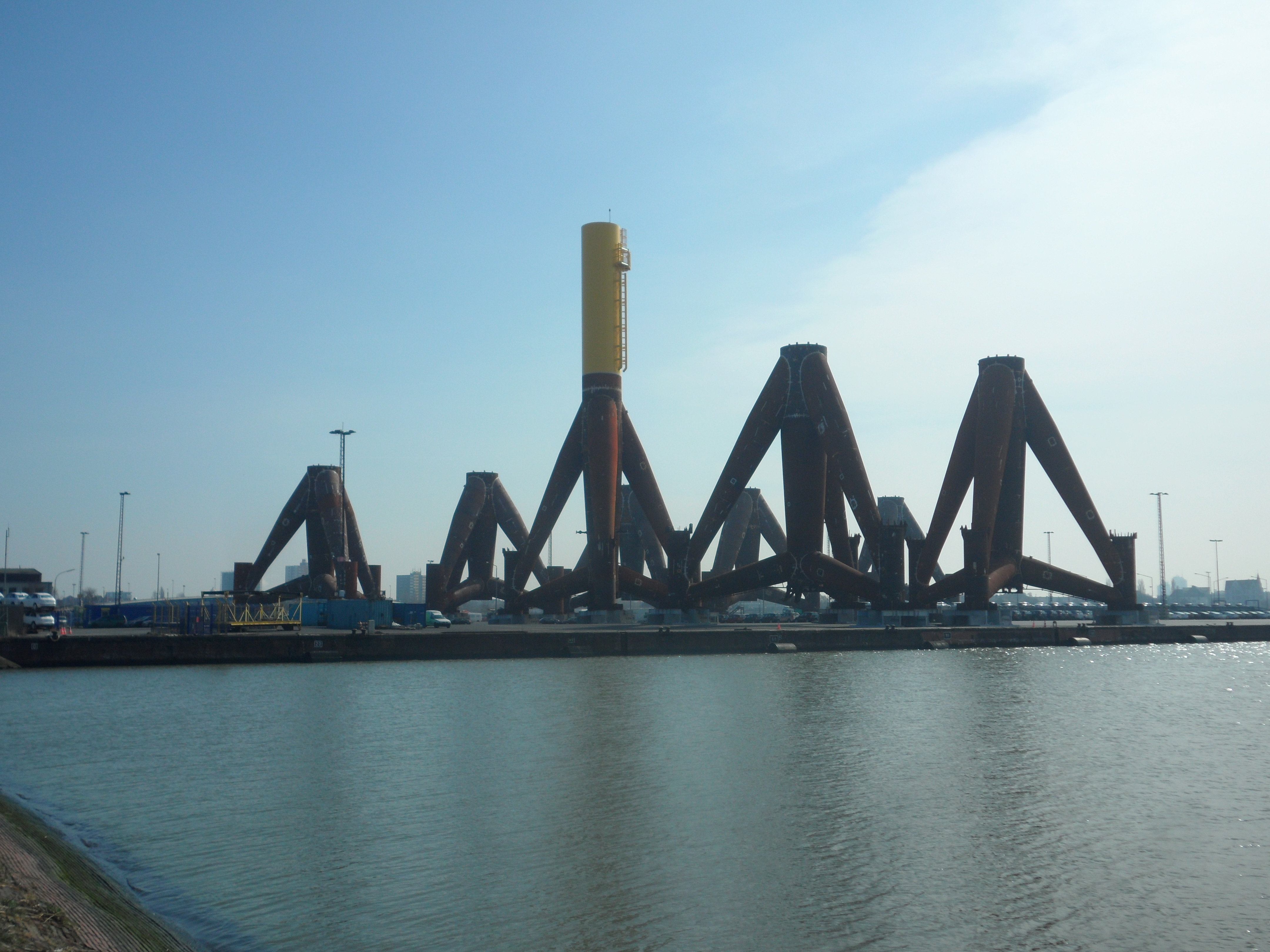 Tripods in the harbour of Bremerhaven to build the offshore Windparks in the Nordsee